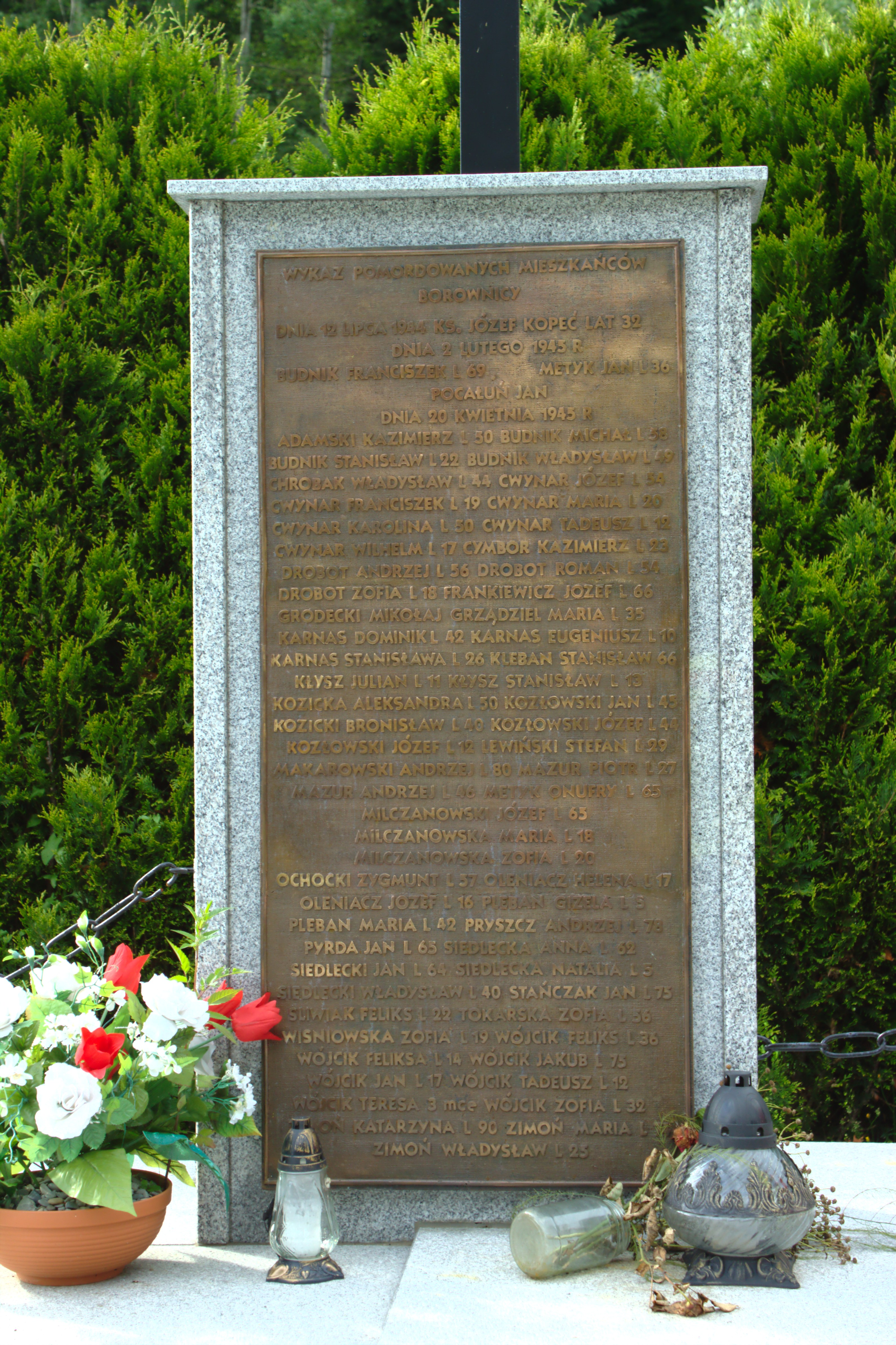 A memorial plaque with names of the polish people who died during clashes with UPA. Borownica, Podkarpackie voivodeship, PL This photo of Subcarpathian Voivodeship was taken during Wikiekspedycja 2011 set up by Wikimedia Polska Association.You can see all photographs in category Wikiekspedycja 2011. The making of this document was supported by Wikimedia Polska.